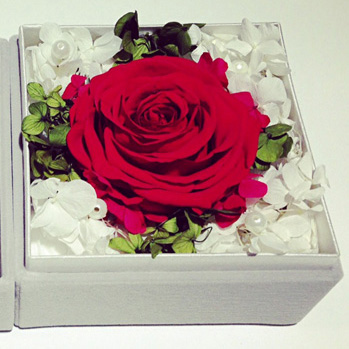 a preserved flowery design work sample